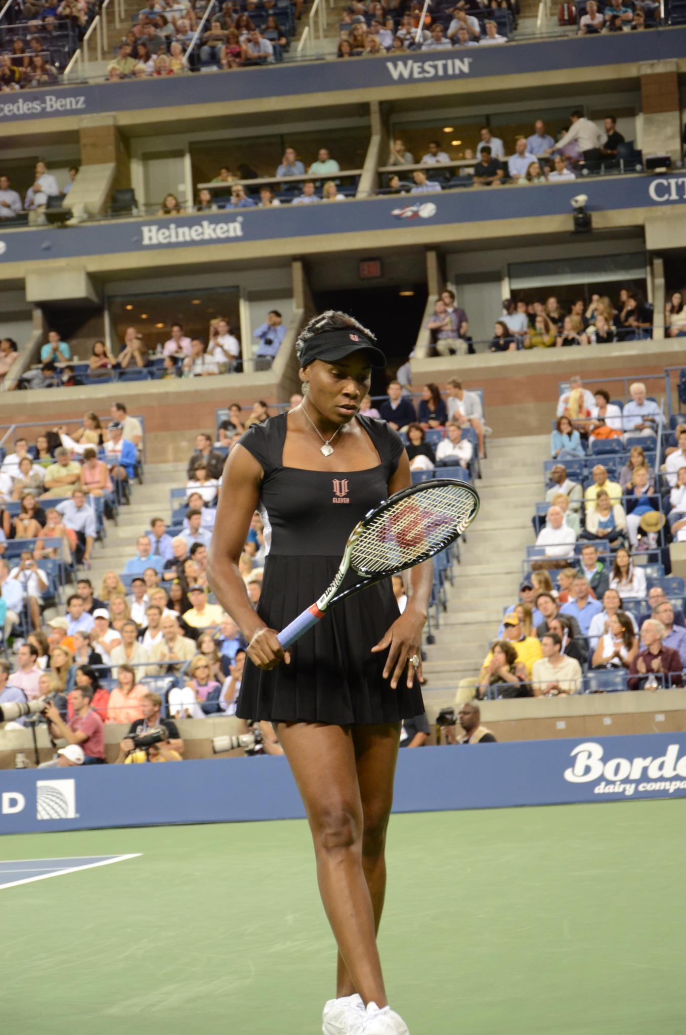 2011 US Open first round